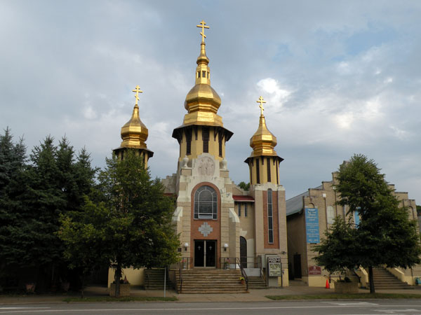 Picture of St. Peter & St. Paul Ukrainian Orthodox Greek Catholic Church located at 200 Walnut Street in Carnegie, Pennsylvania, on July 31, 2010. Built in 1906, architect Titus de Bobula, the church is on the List of Pittsburgh History and Landmarks Foundation Historic Landmarks.